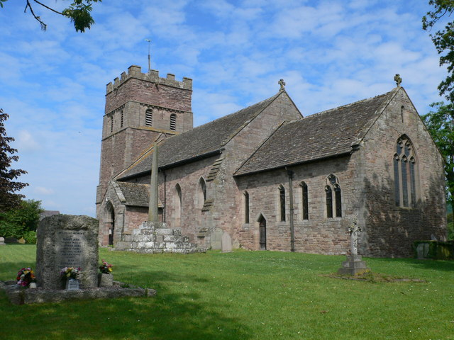 St Margaret of Antioch, Wellington The earliest parts of the church date from the Norman period, and was built by the Chandos family of Snodhill.